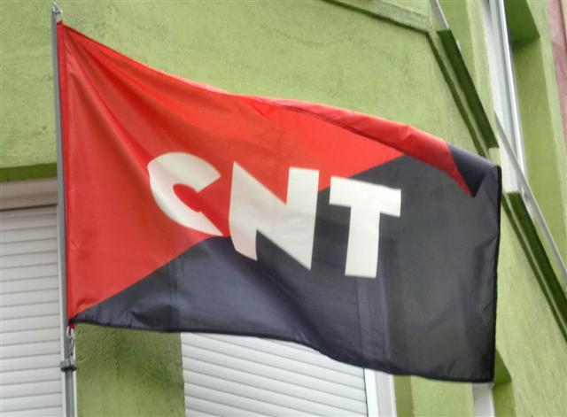 CNT flag